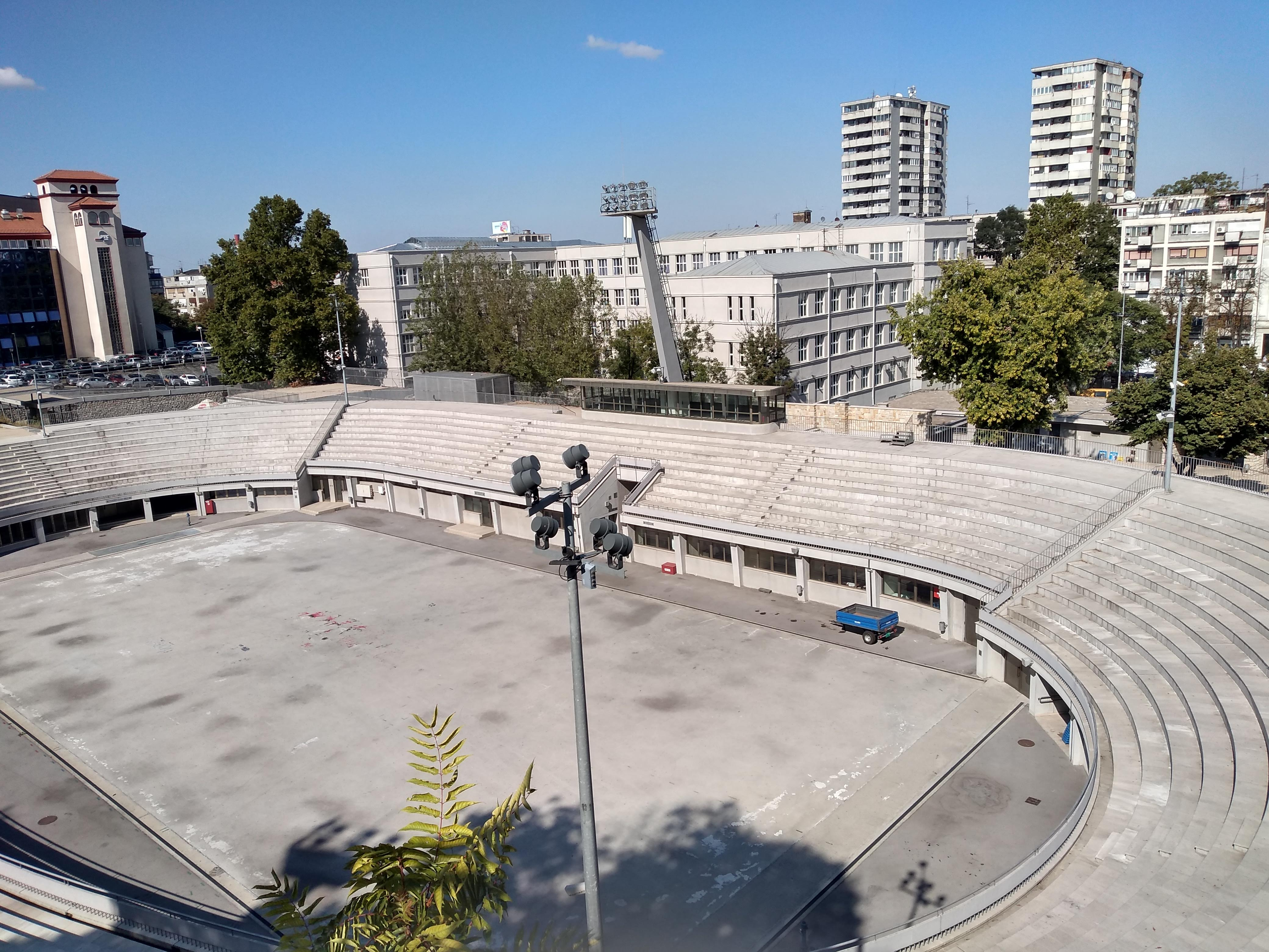 Tašmajdan Stadium in Belgrade, Serbia